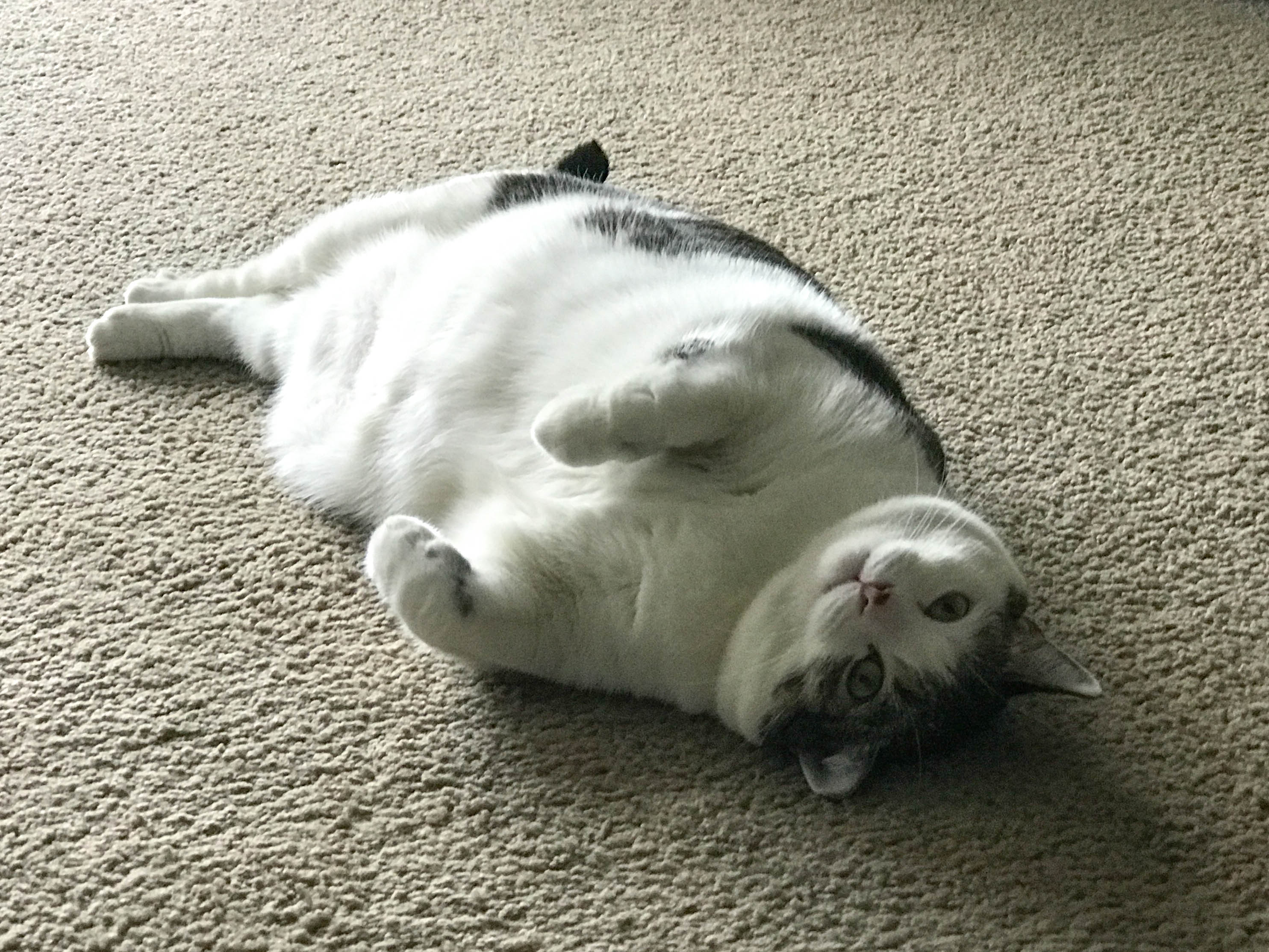 A cat rolls onto its back.